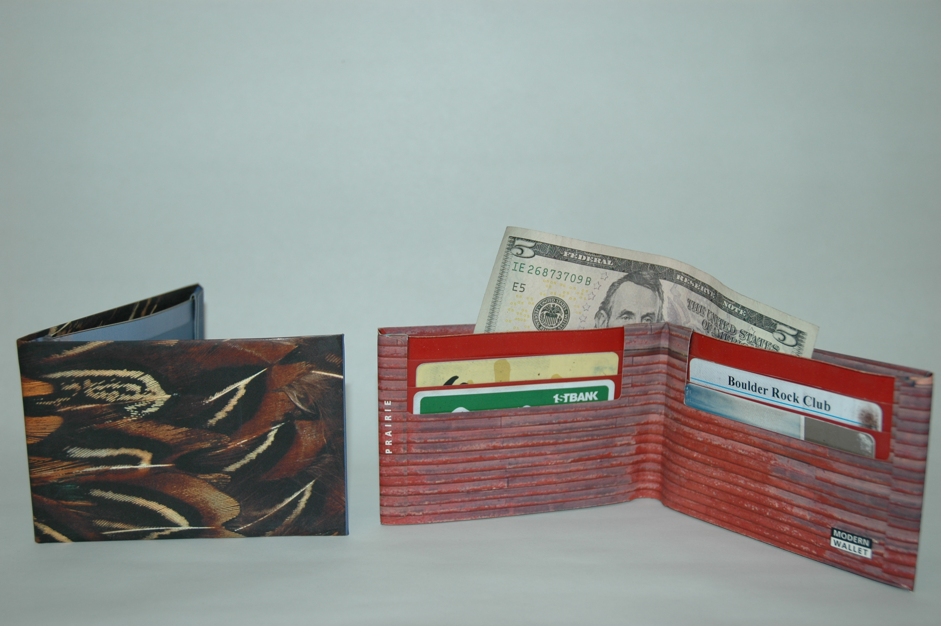 Two Modern Wallets.